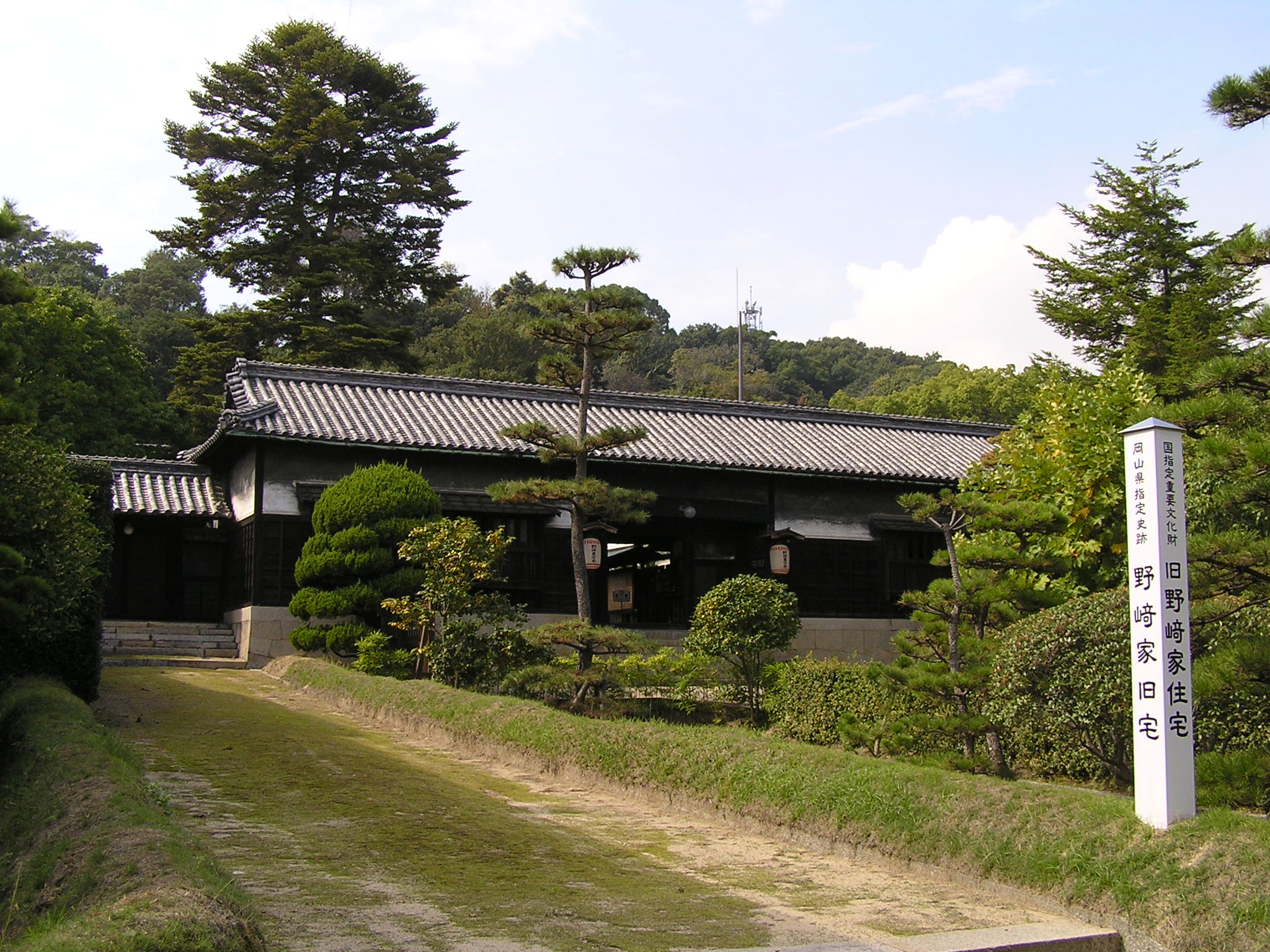 Near the entrance to the old Nozaki house in Kojima, Kurashiki